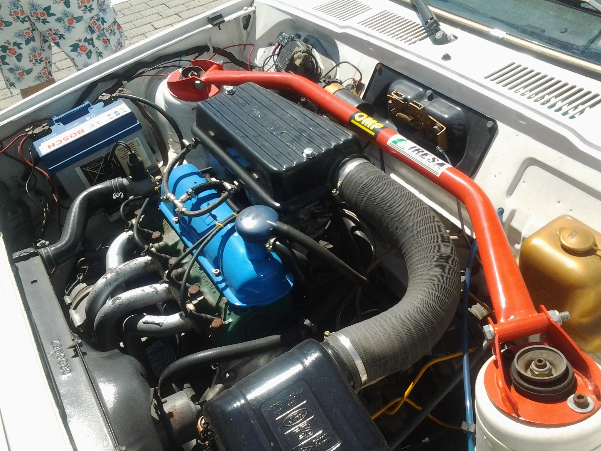 Fiesta 1100 X series engine